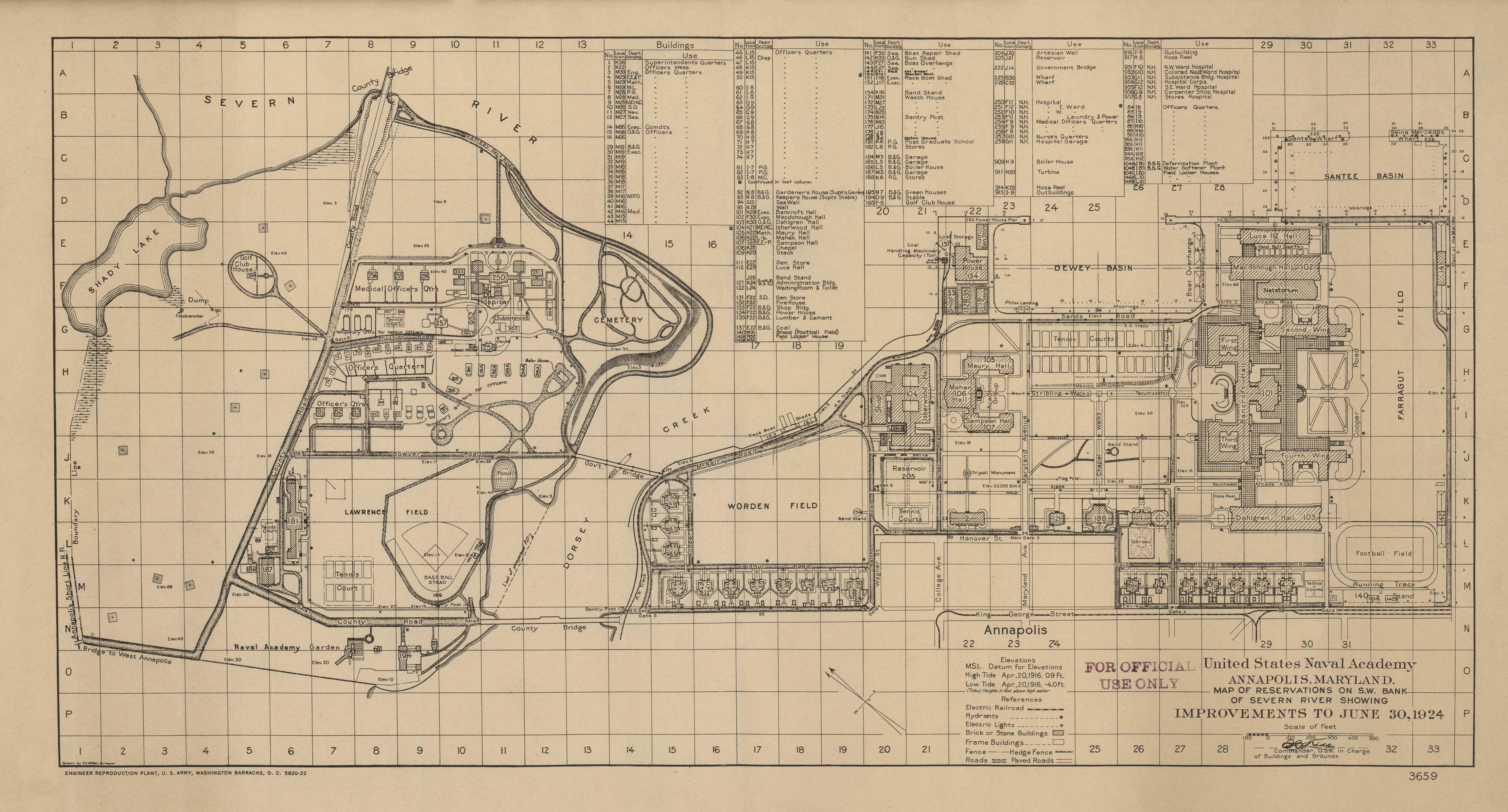 A 1924 map of the US Naval Academy campus. The map was drawn by C.E. Miller, surveyor, and was published by the U.S. Army. Thompson Stadium is present on the bottom right corner of the map. The stadium was demolished in the 1980's. Several of the Academy's present athletic facilities are not present, as they did not yet exist. Citing this map: United States Army (Improvements to June 30, 1924). United States Naval Academy, Annapolis, Maryland (Map). 1 : 100. Cartography by C.E. Miller (1924 ed.). Section A1-P33.